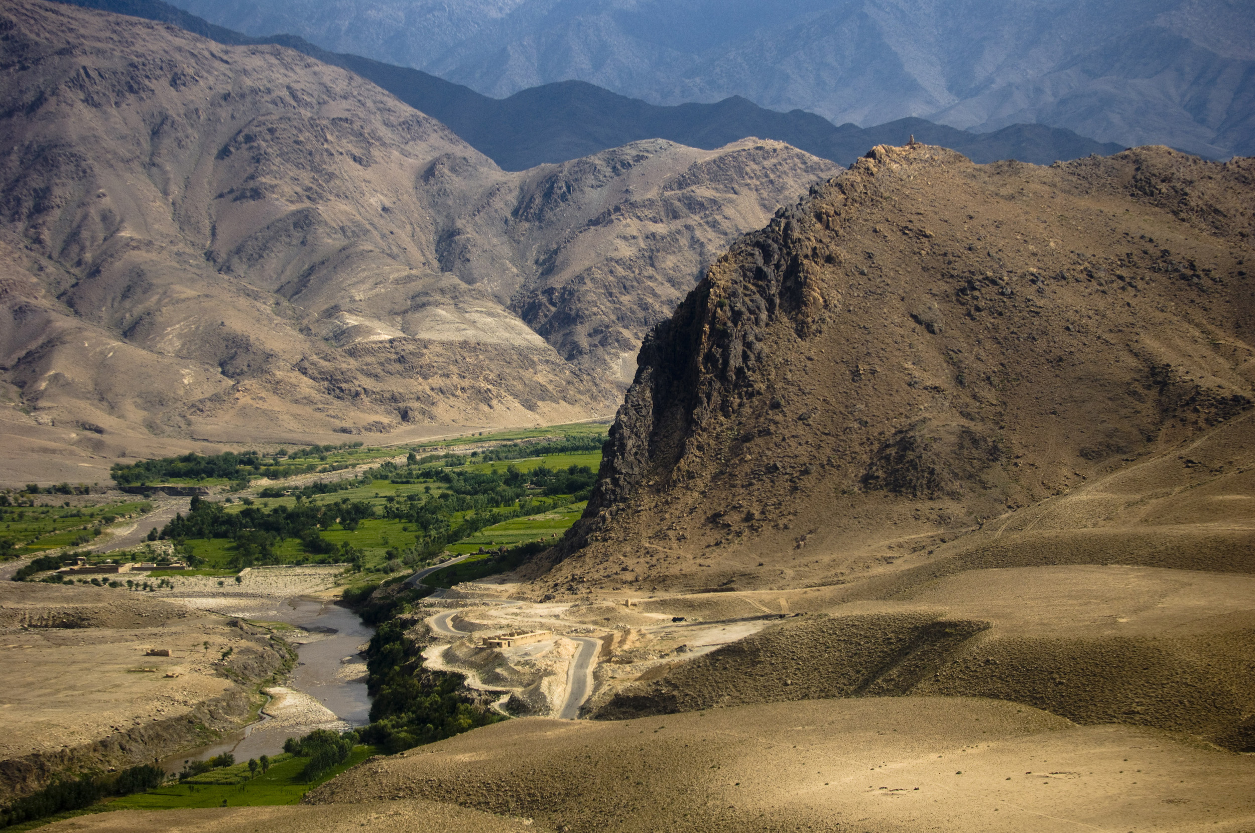 BAGRAM AIR FIELD, Afghanistan -- Lush greenery stands in stark contrast to the surrounding desert in Laghman Province, Afghanistan September 7, 2008. In the harsh climate of Afghanistan, towns are often huddled around local waterways. (U.S. Air Force photo by Staff Sgt. Samuel Morse/Released)